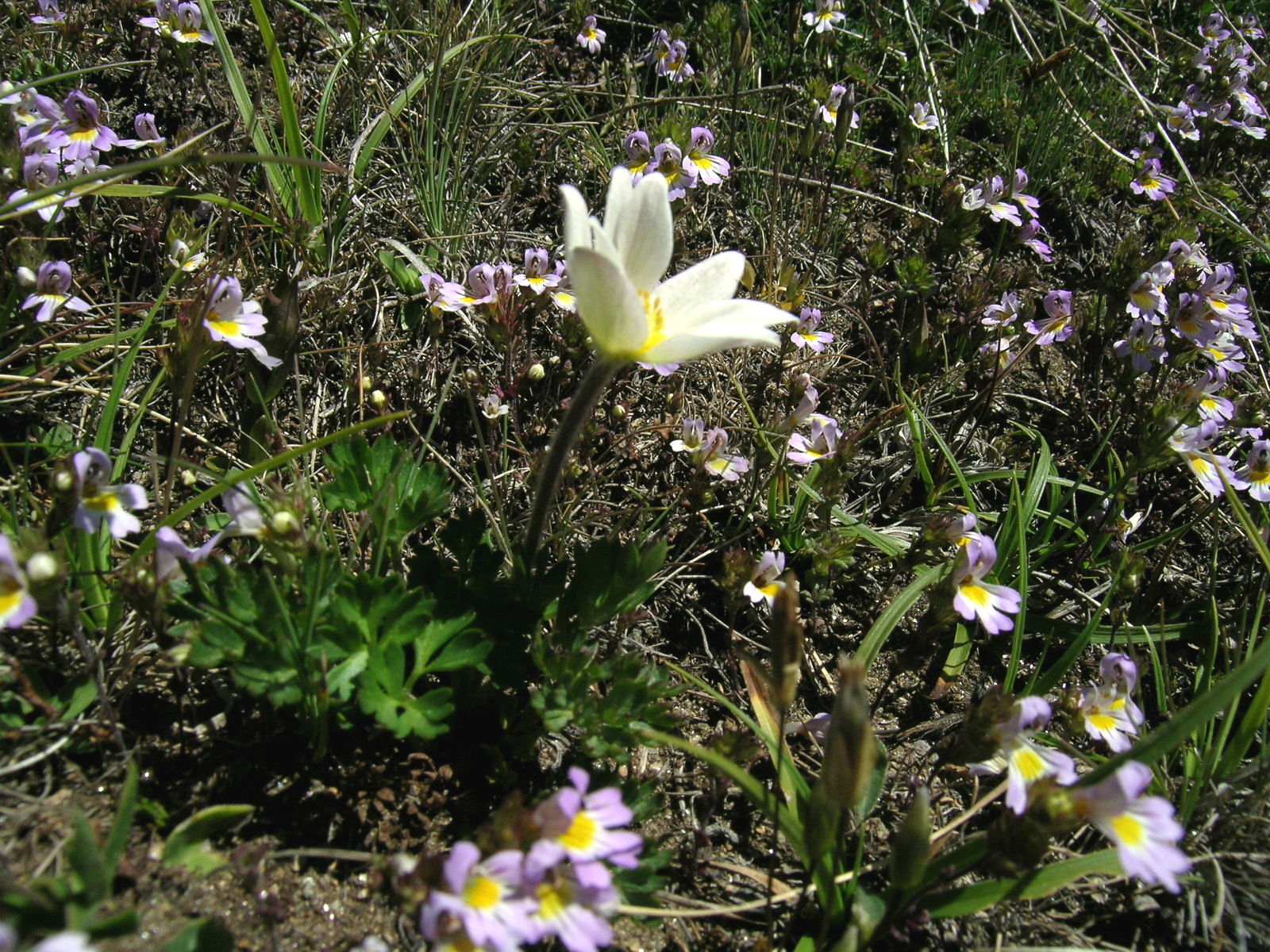 Anemone baldensis Zermatt, beneath Gornergrat (Kanton Wallis, Switzerland), 2800 m Author: Roland Teuscher – own photograph Date: 2.08.06